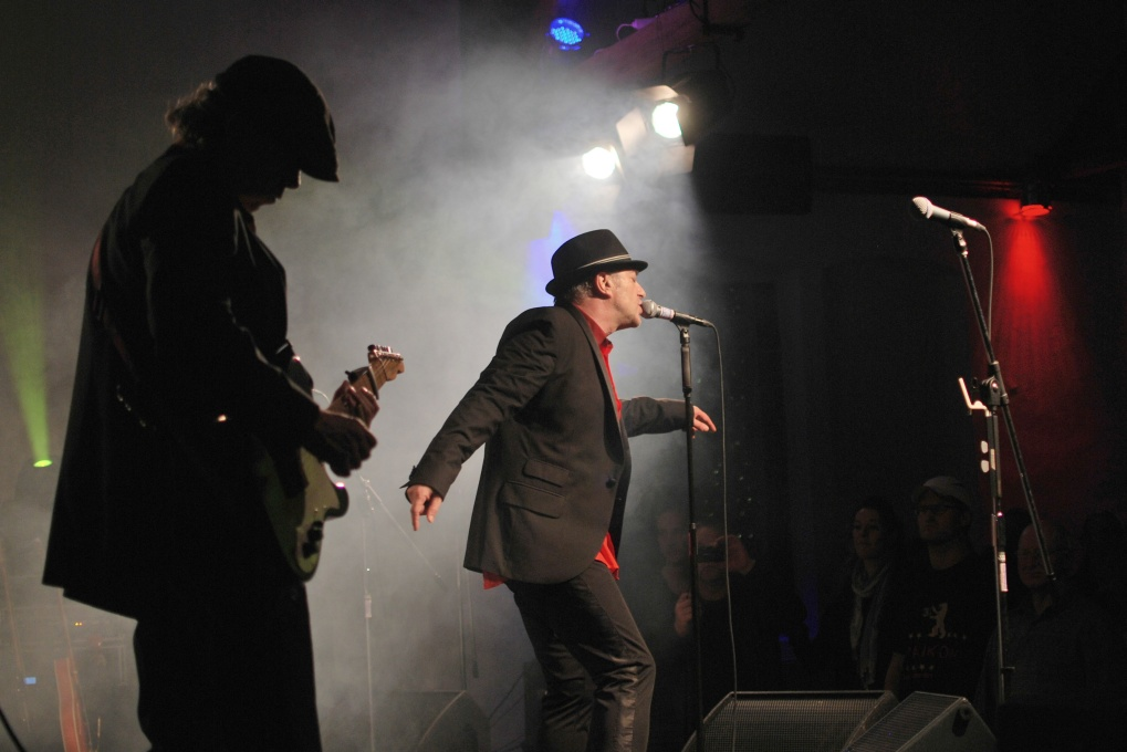 Pankow (German Band), Concert 2011-12-03 in Neubrandenburg, LTR Jürgen Ehle, André Herzberg